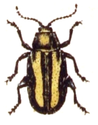 Phyllotreta nemorum, from Calwer's Käferbuch, Table 43, Picture 16. Taxonomy was updated to 2008, using mostly the sites Fauna Europaea and BioLib. Please contact Sarefo if the determination is wrong!